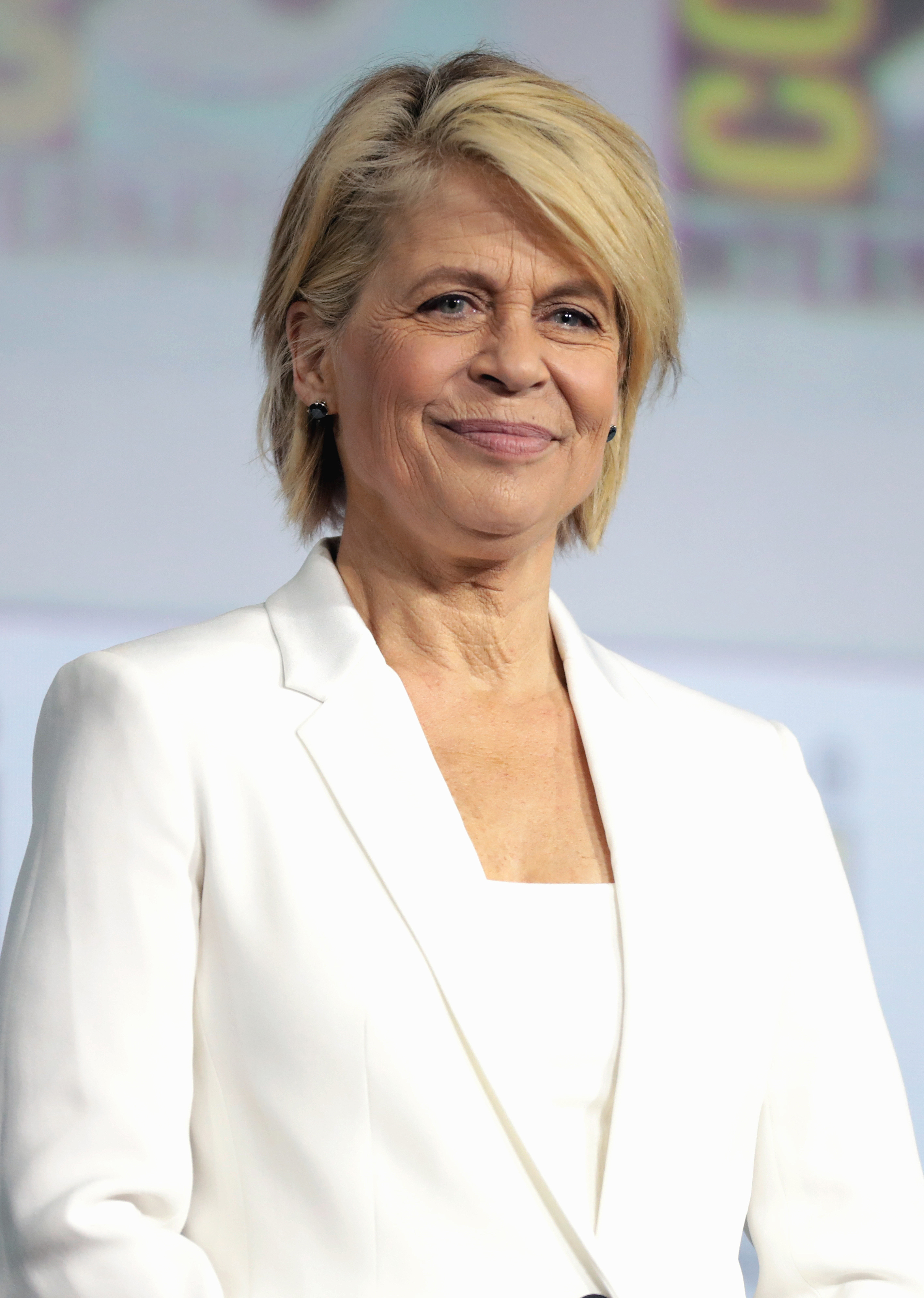 Linda Hamilton speaking at the 2019 San Diego Comic-Con International in San Diego, California.